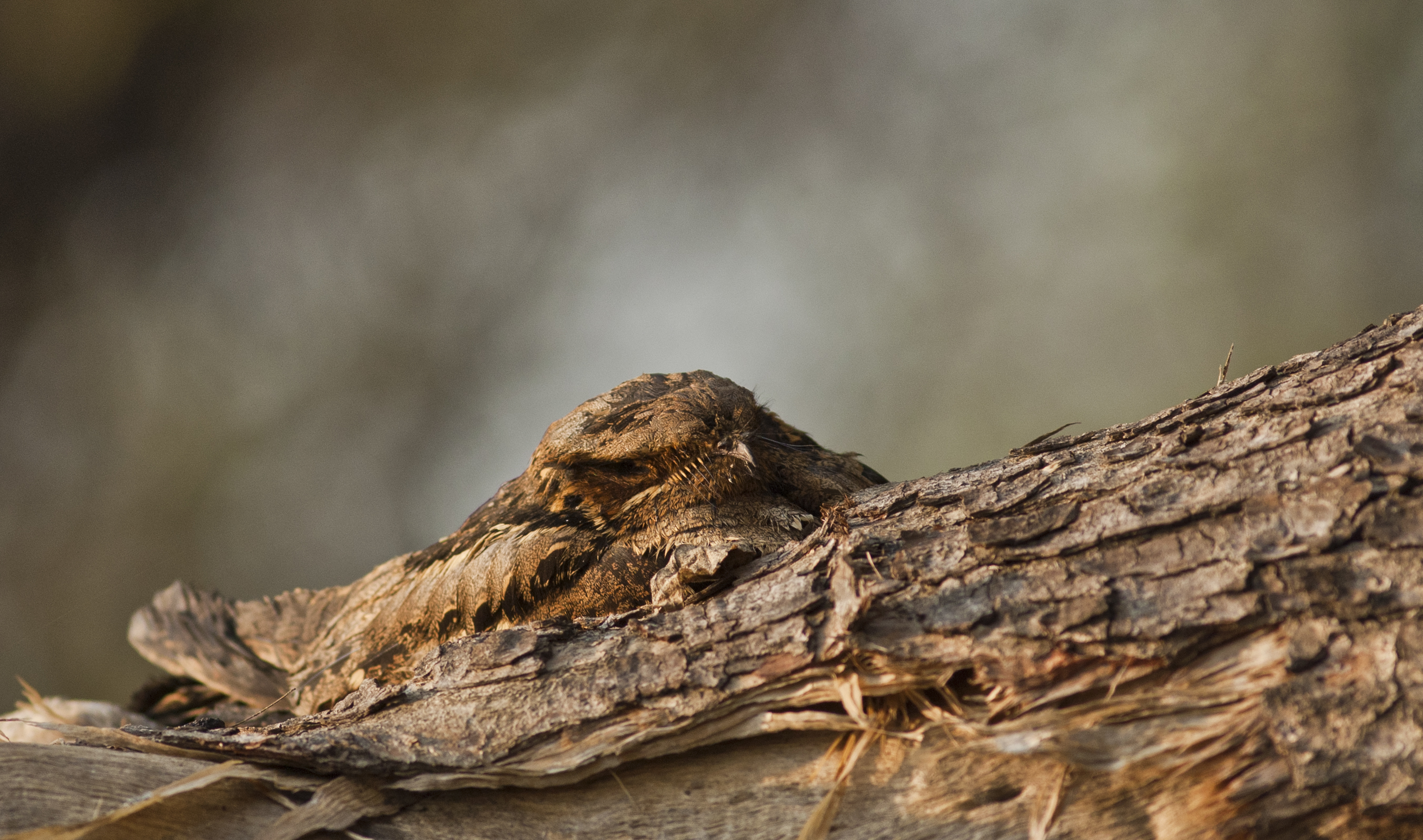 This Large-tailed Nightjar Caprimulgus macrurus is beautifully camouflaged in its habitat on the bark of the tree where it perches in Keoladeo Ghana national park